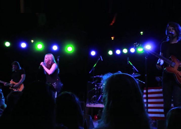 American banda The Never Ending performing live at Texas in 2014.